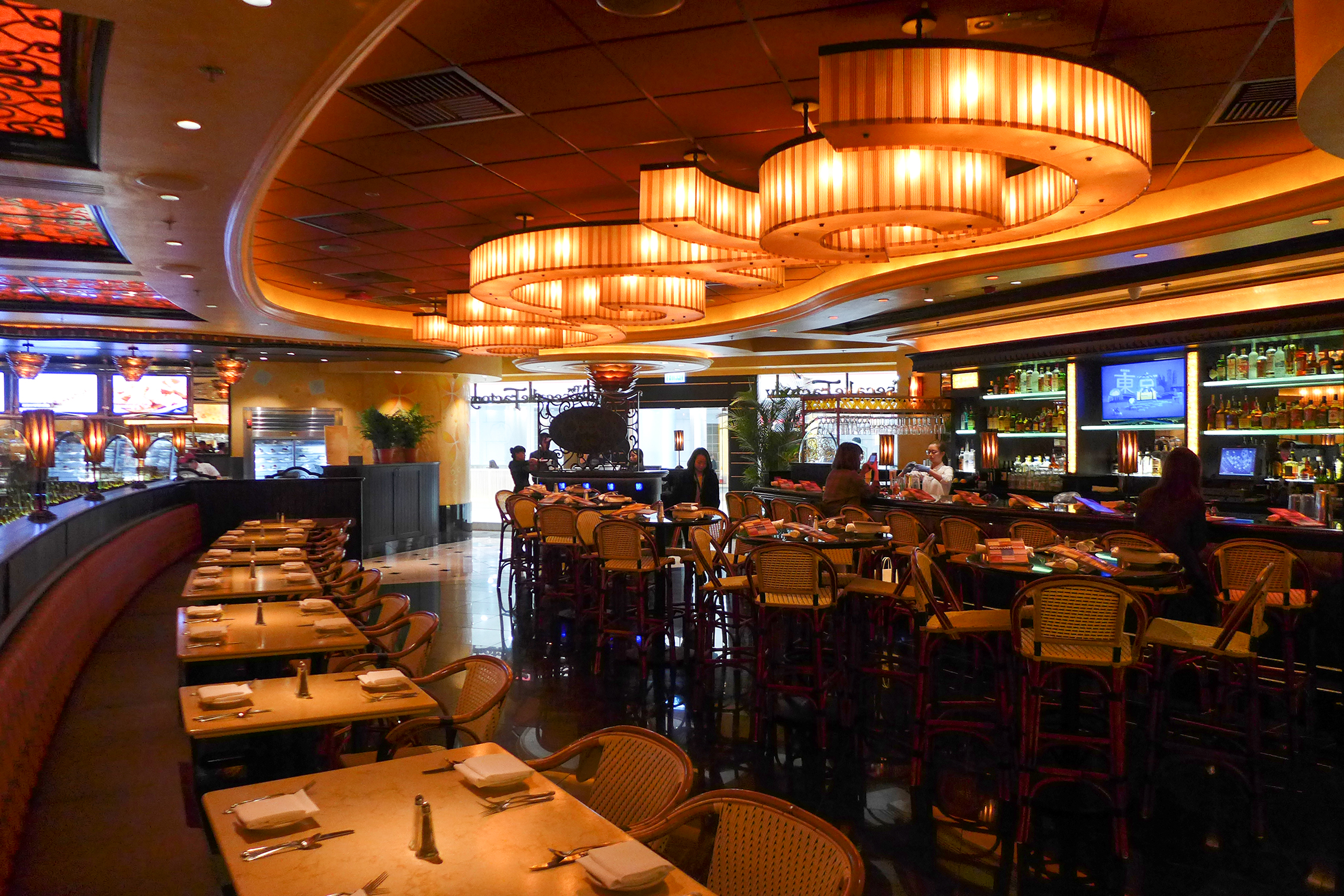 The Cheese Cake Factory in Hong Kong